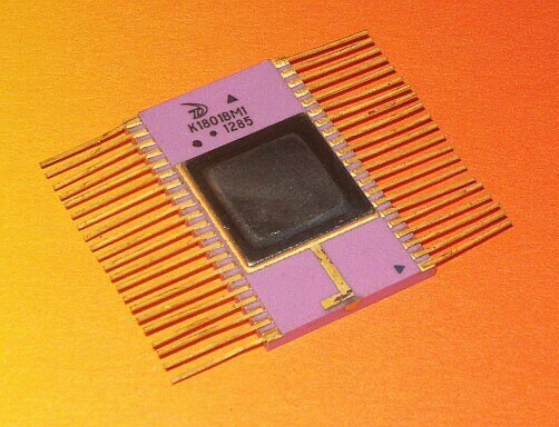 USSR CPU K1801VM1